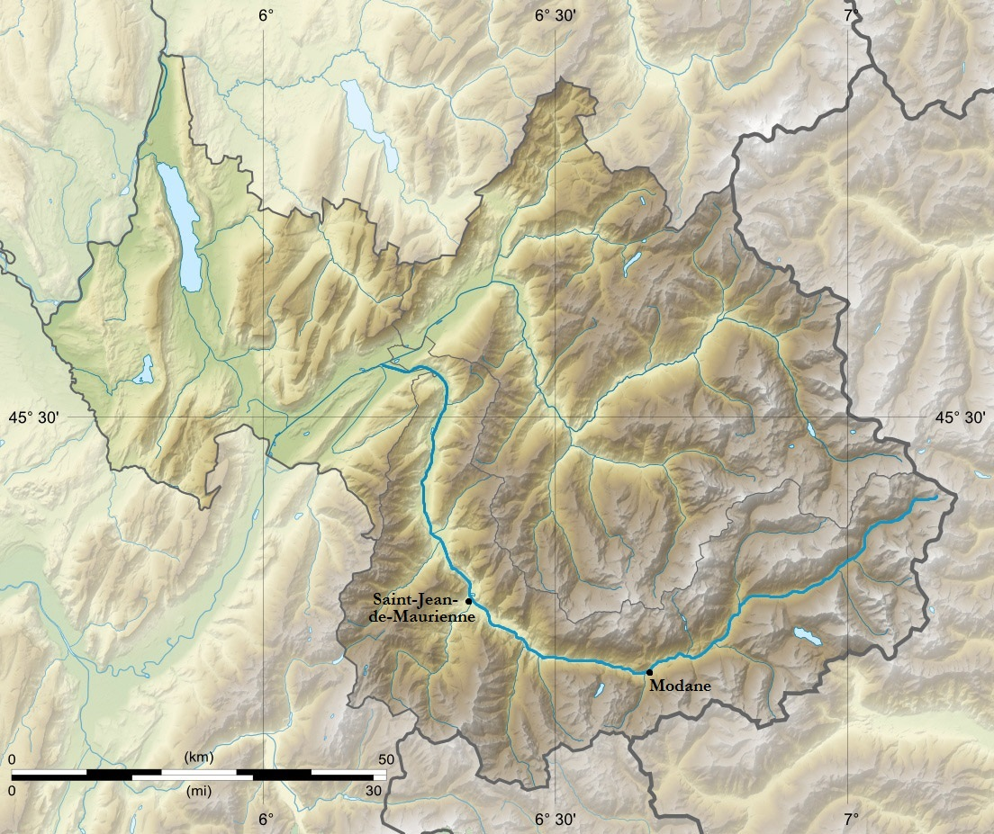 Physical map of the department of Savoie, France, focusing on river Arc, for geo-location purpose. Scale : 1:800,000 (precision : 200 m)